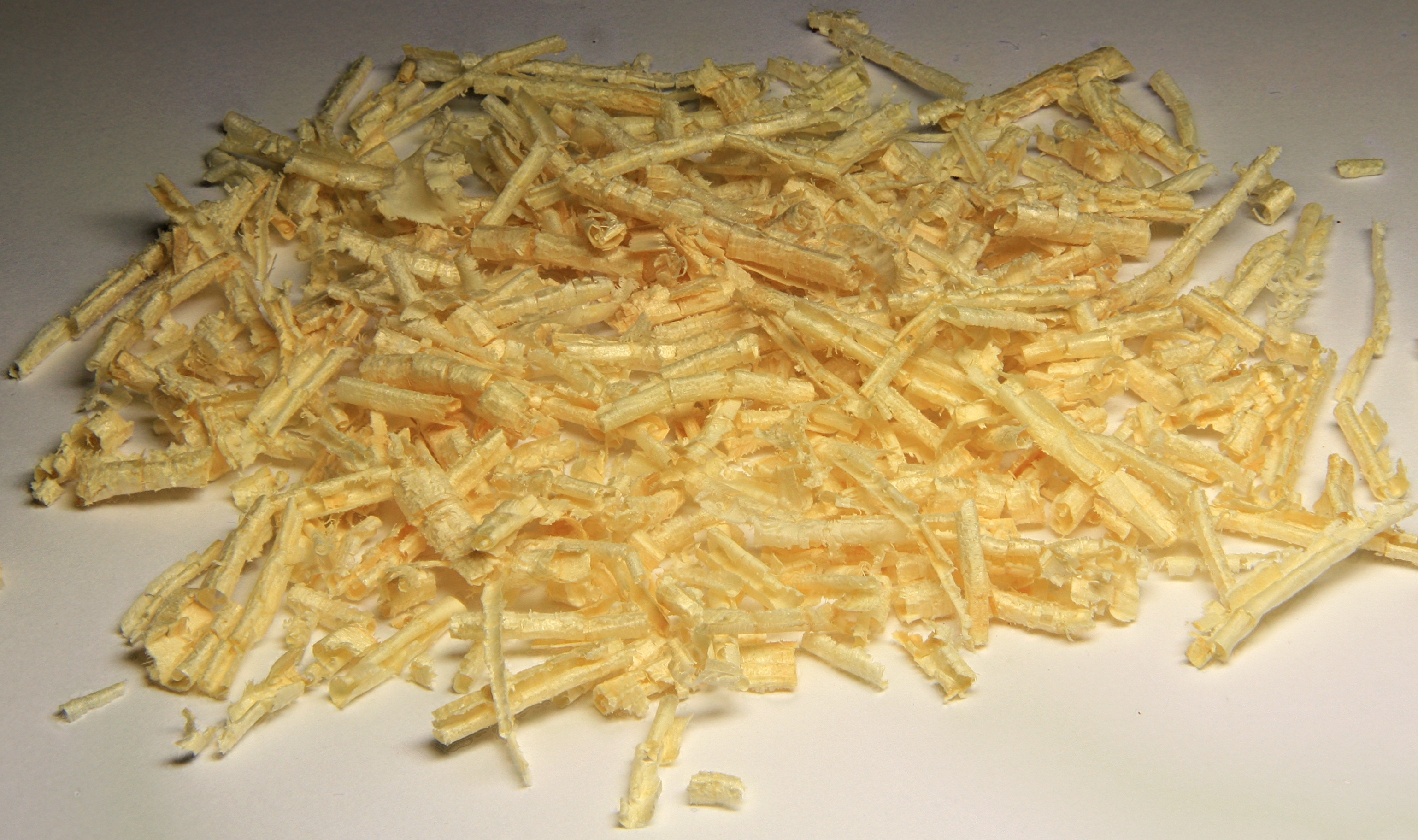 Swarfs of an electric Plane